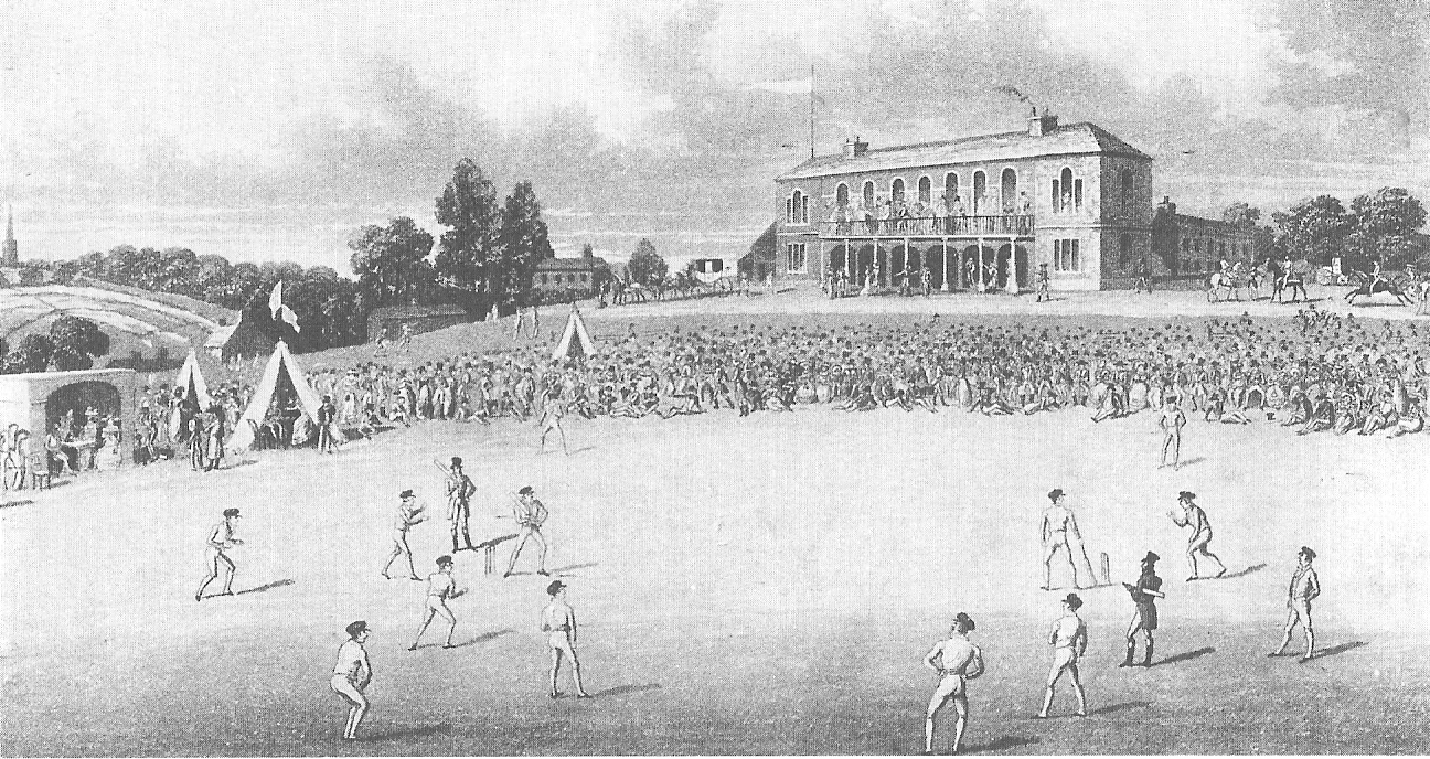 Contemporary engraving showing cricket ground at Darnall in Sheffield, laid out for the Wednesday Cricket Club in 1821 and enlarged in 1824, during a match.